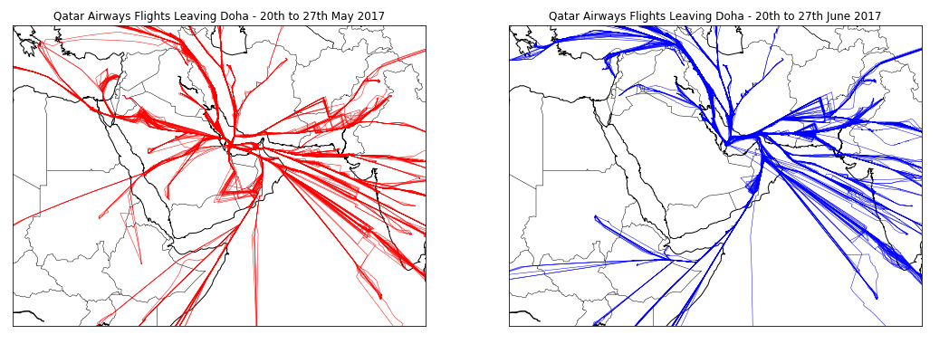 Two maps showing flightpaths of Qatar Airways flights leaving Doha, before and after the airspace embargo was imposed by Qatar's neighbours.